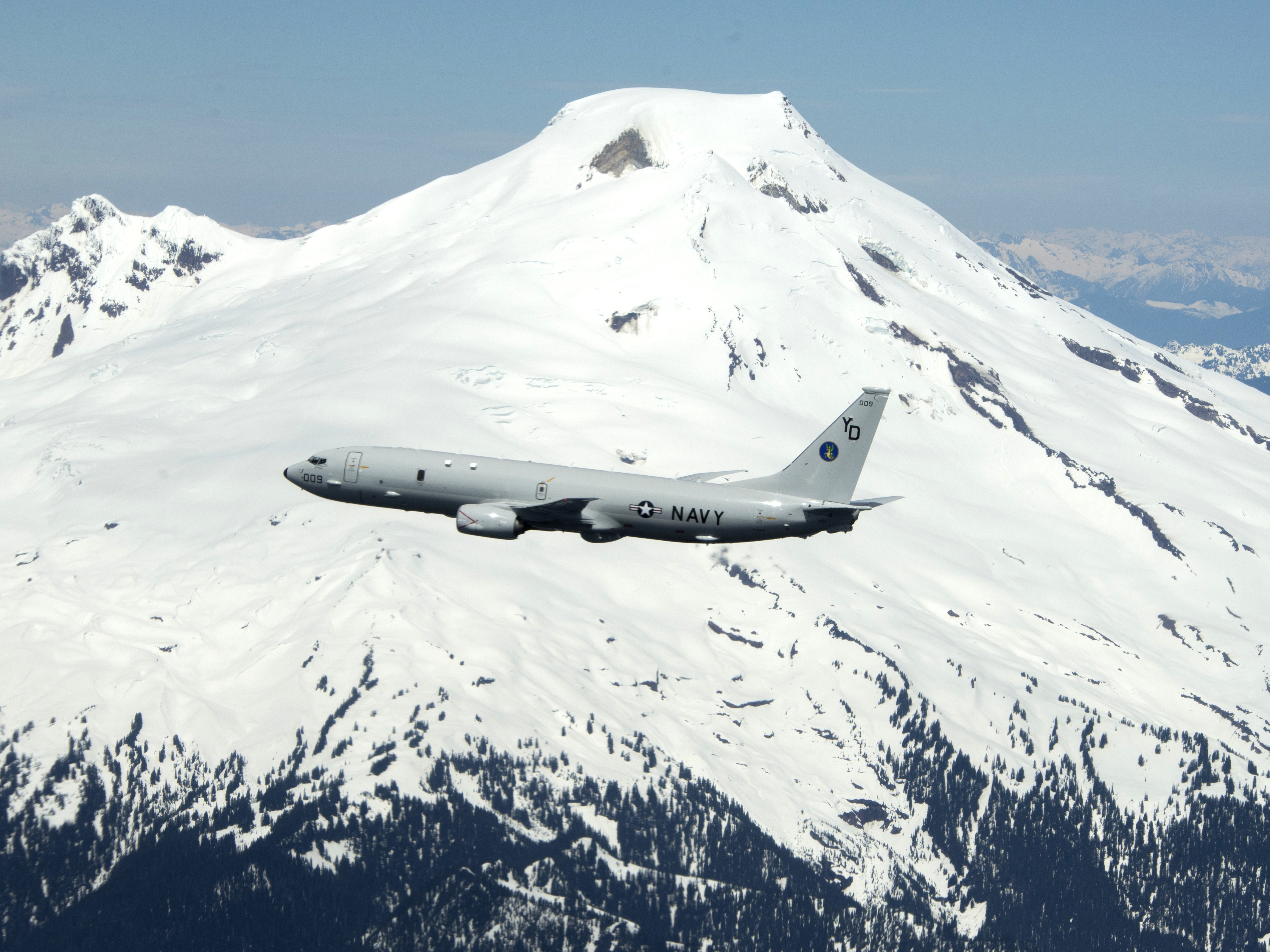 A U.S. Navy Boeing P-8A Poseidon (BuNo 169009) assigned to Patrol Squadron 4 (VP-4) "Skinny Dragons" flies near Mount Baker, Washington (USA), during a training exercise.